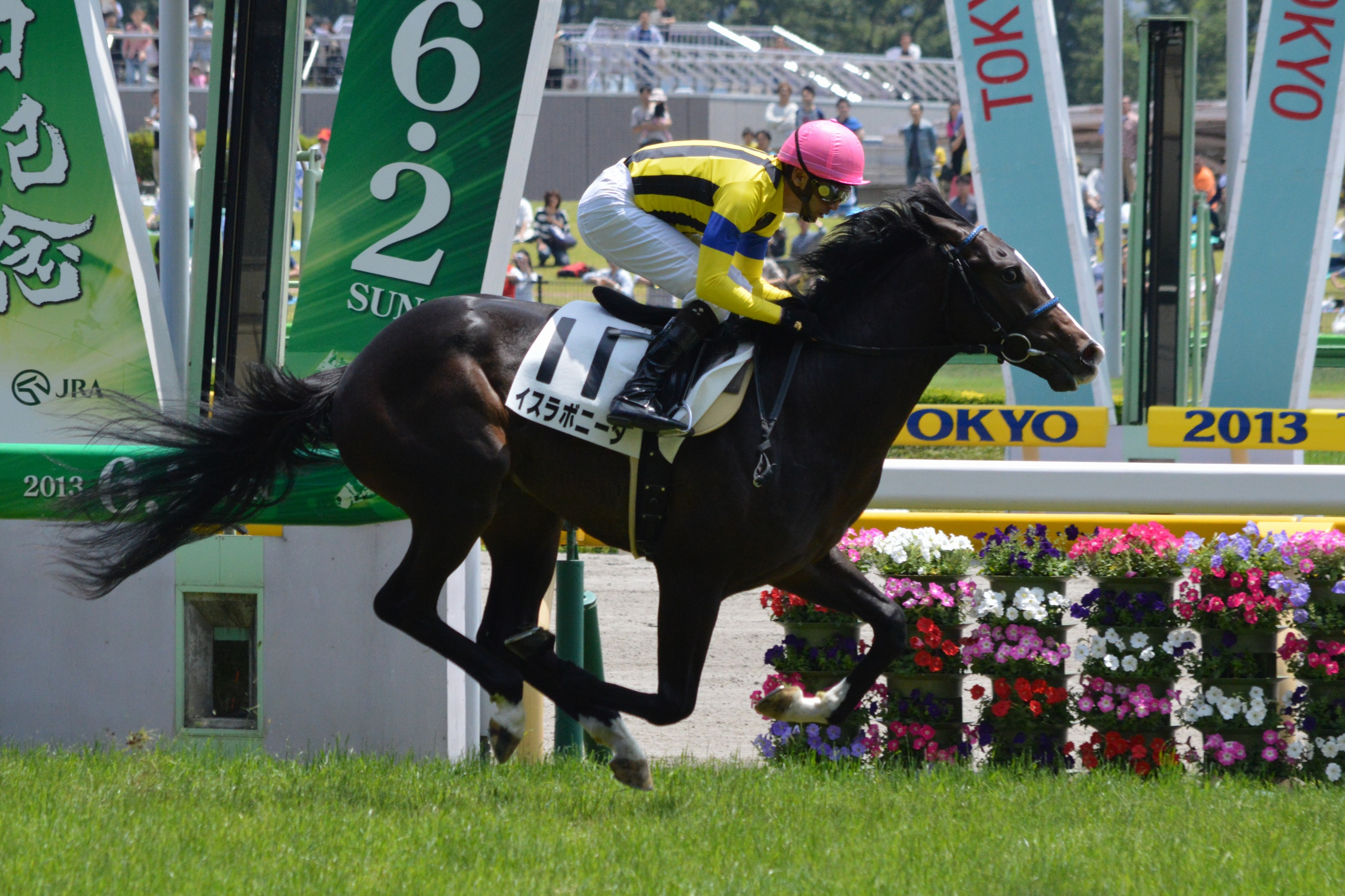 Japanese race horse Isla bonita at Tokyo racecourse. Tokyo (JPN) 02 Jun 2013 Maiden (Turf) 1m Firm RankHorse NameOddsAgeWgtTrainerJockey1stIsla bonita (JPN)33/10C28-7Hironori KuritaMasayoshi Ebina2ndPearly Shell (JPN)103/5F28-7Sakae KuniedaHiroshi Kitamura3rd - 12th/omission